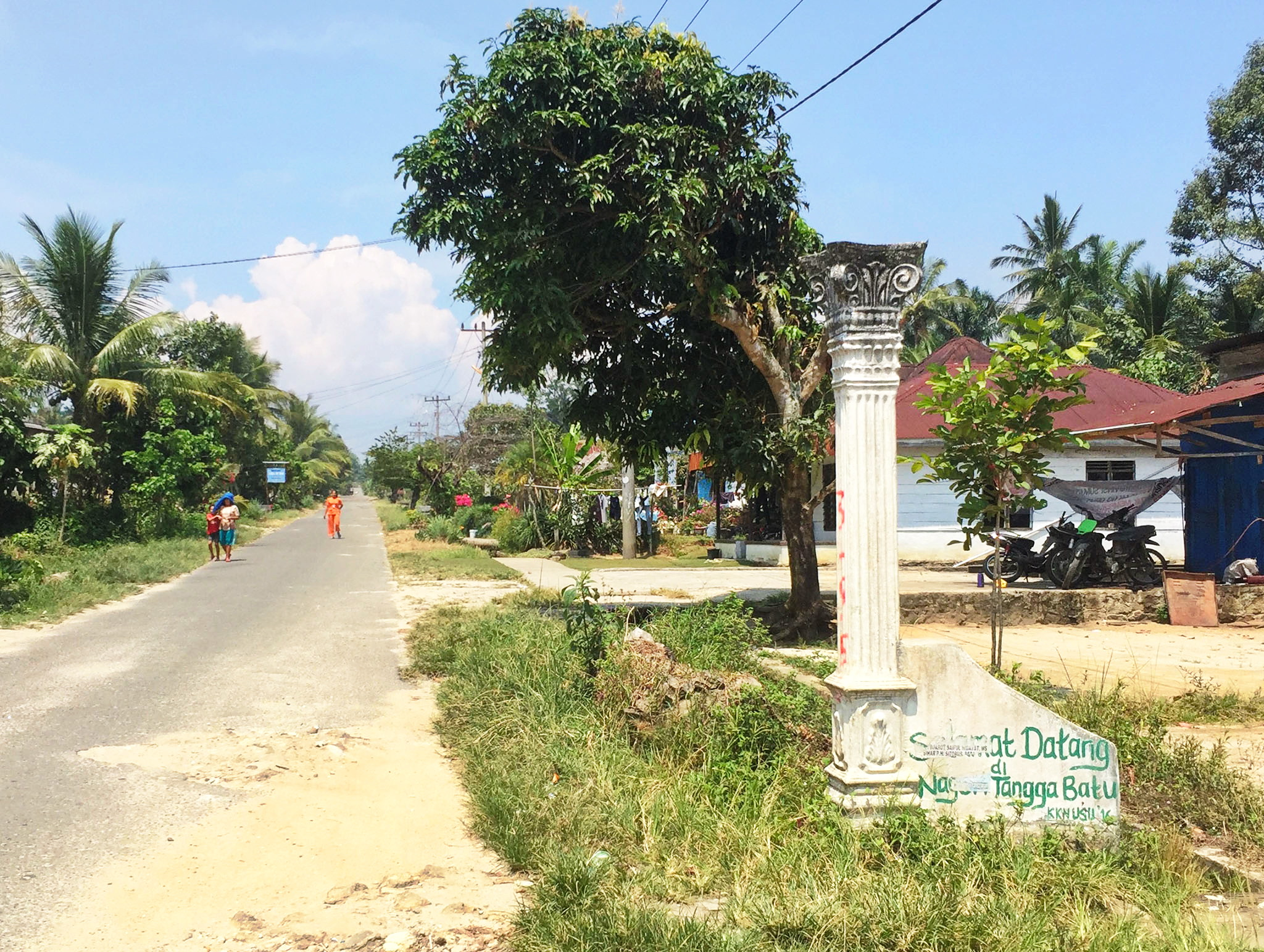 welcome gate to Tangga Batu, Hatonduhan, Simalungun